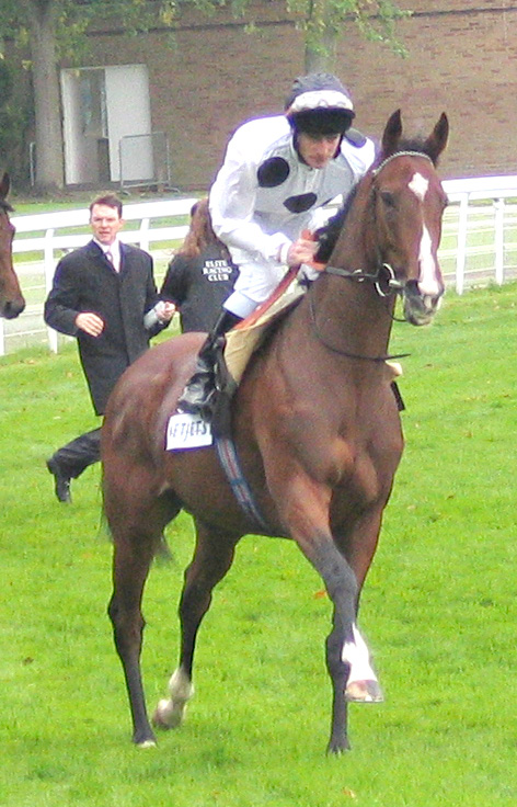 Photo taken by myself at Ascot Racecourse on 25th September 2004.